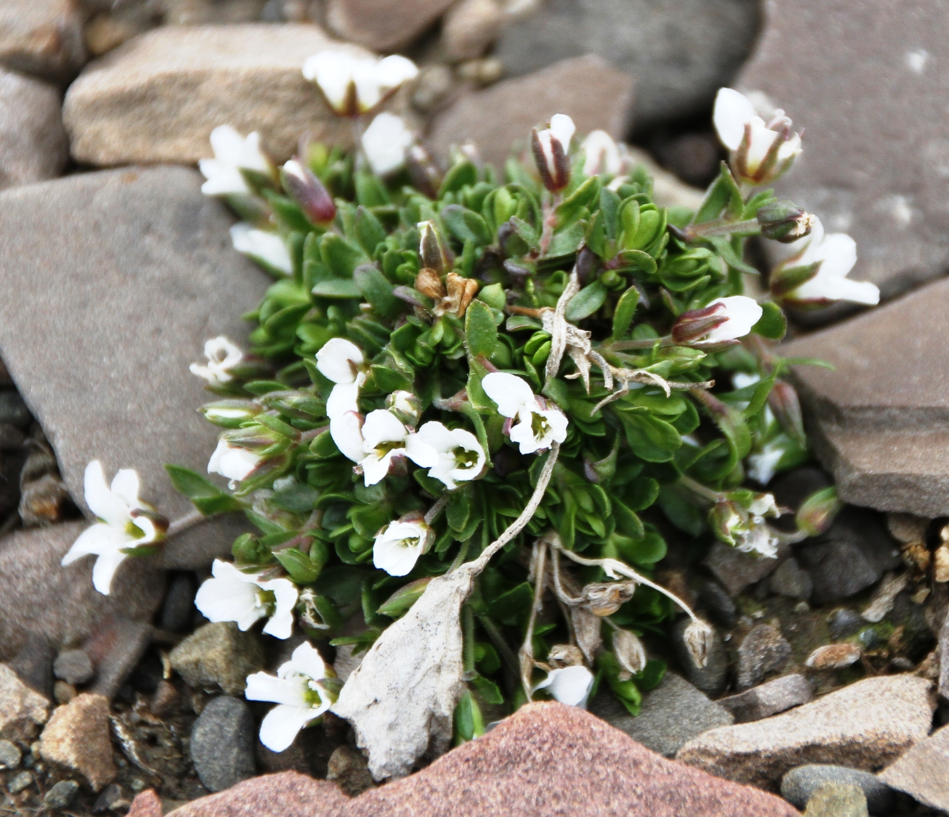 Plants at the Hotellneset / Vestpynten plain south of Longyearbyen airport, Spitsbergen (Norway). Norwegian name = Kalkarve.